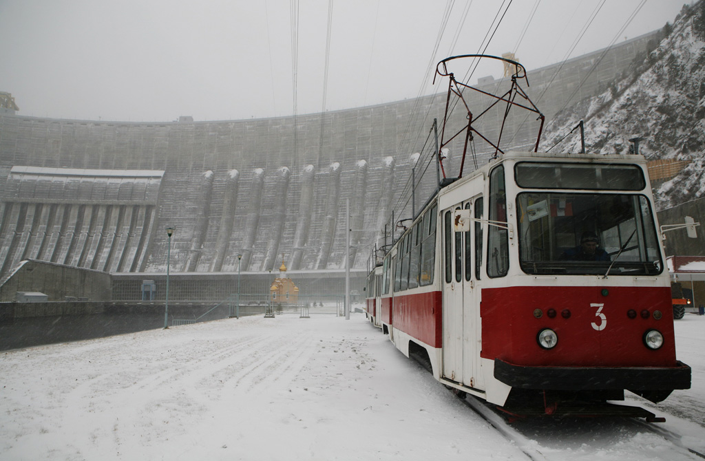 “Views of Sayano-Shushensk Hydro Power Plant”. Tram at its terminus, the Sayano-Shushensk Hydro Power Plant.